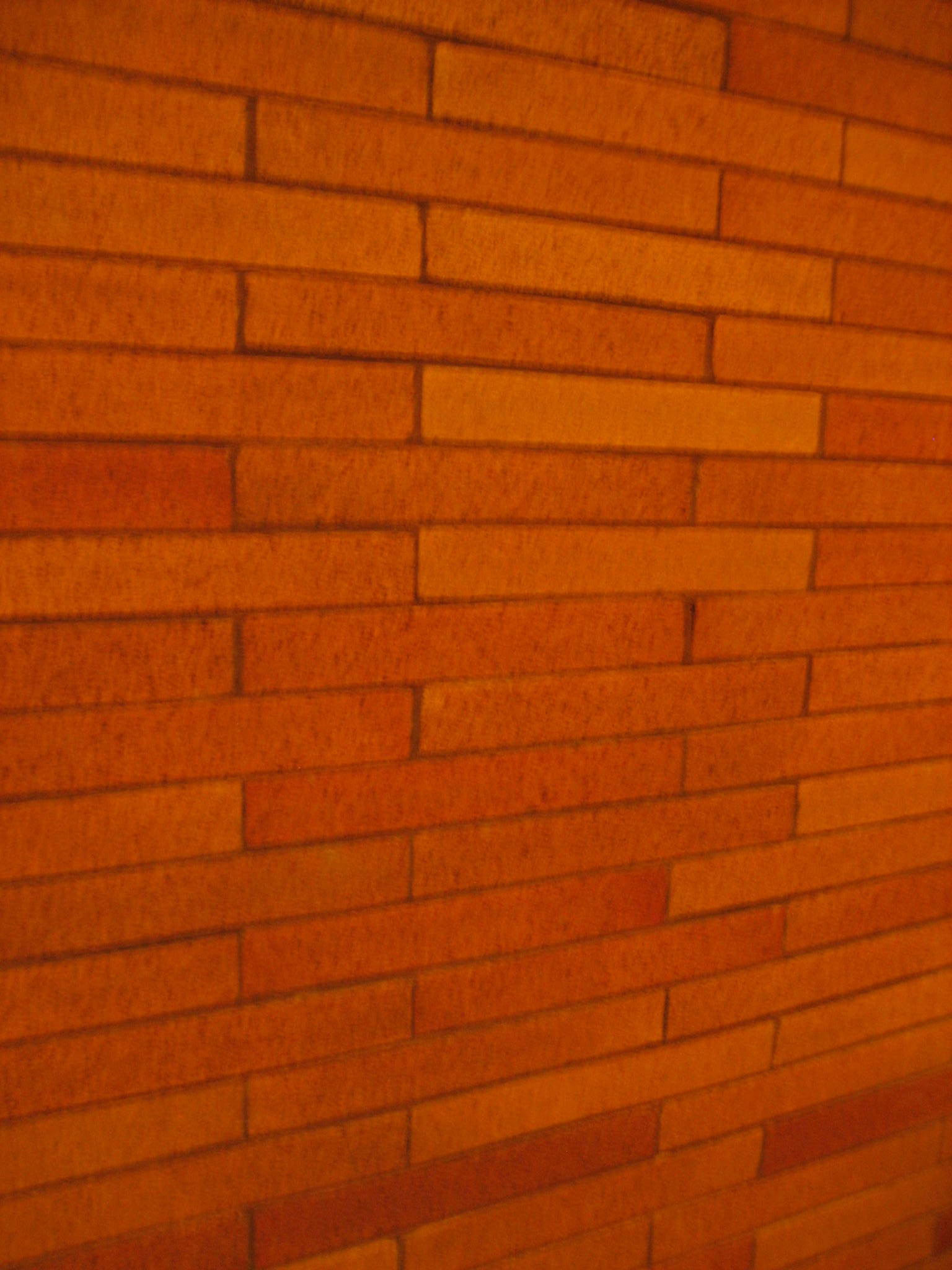 Roman brick in the fireplace of the Frank Lloyd Wright designed Frank L. Smith Bank in Dwight, Illinois, United States.